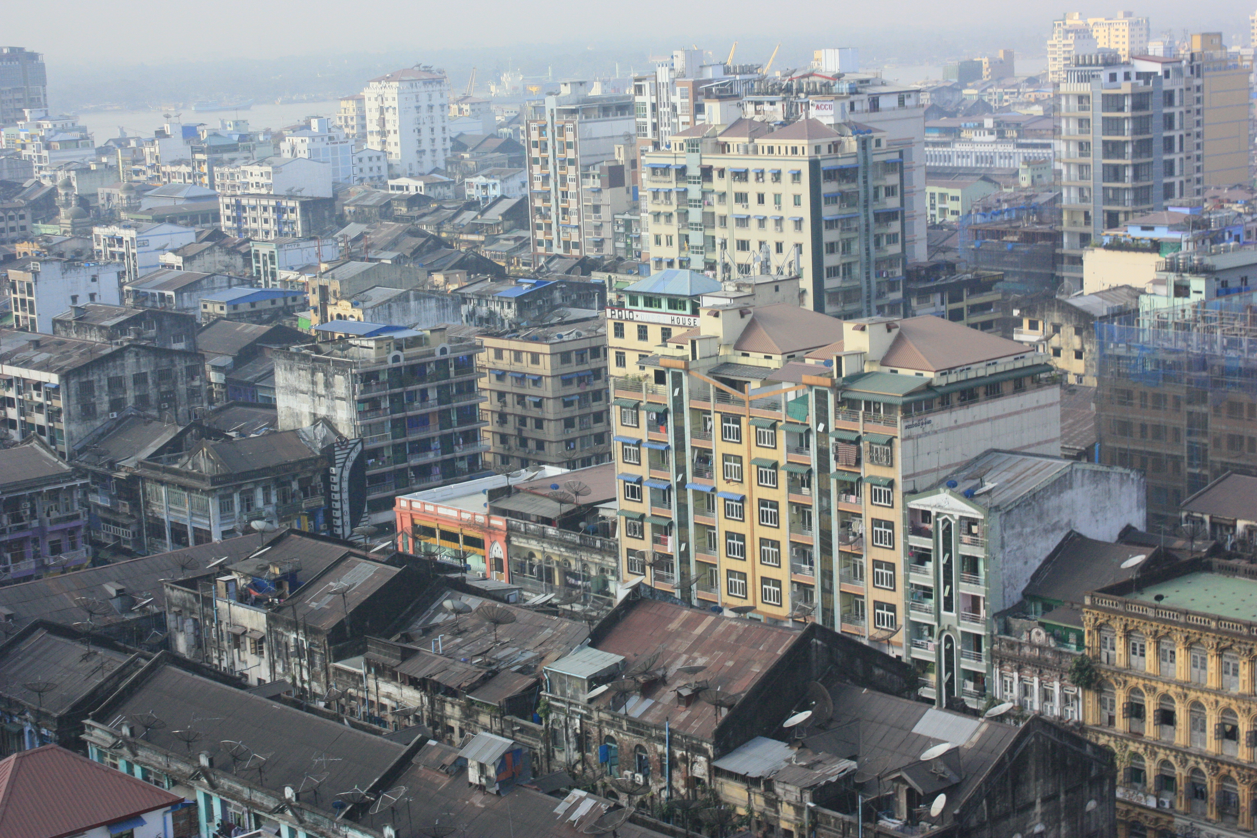 A view over central Yangon in 2015